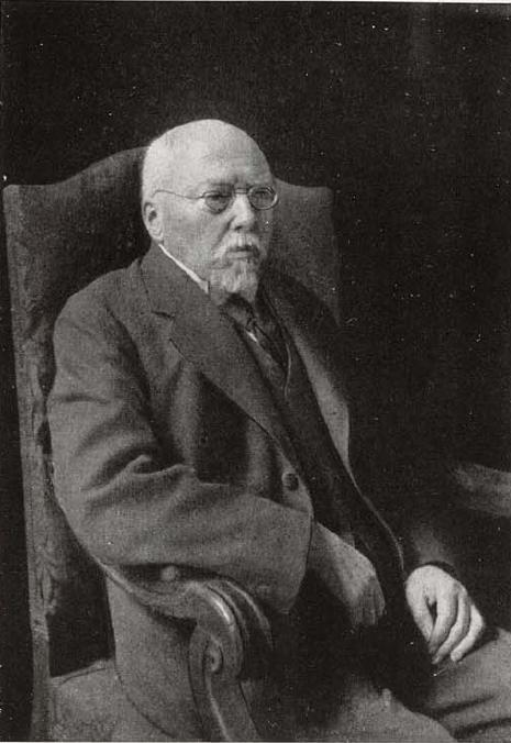 German Chancellor, Count Georg von Hertling.